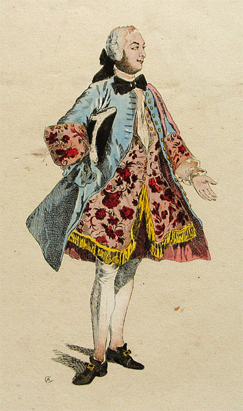 Portrait of the French actor Quinault-Dufresne in the role of the Count of Jupiere in Le Glorieux by Philippe Néricault Destouches, etching (for a figurine) by Auguste-Étienne Guillaumot after an 18th-century print